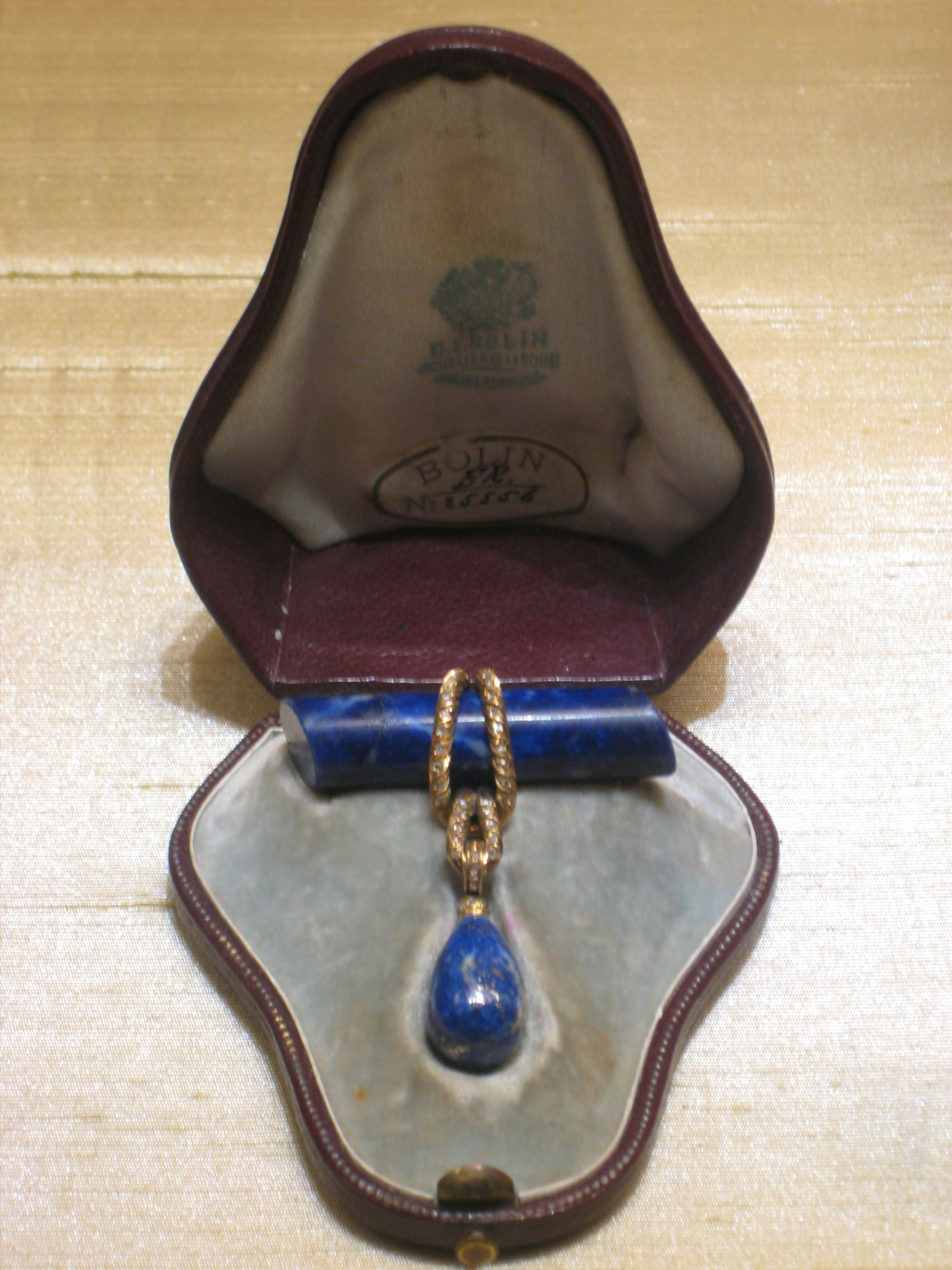 Brooch lazurite with gold and diamonds, from company "K.E. Bolin", second half of the 19th century, Kiritschenko collection